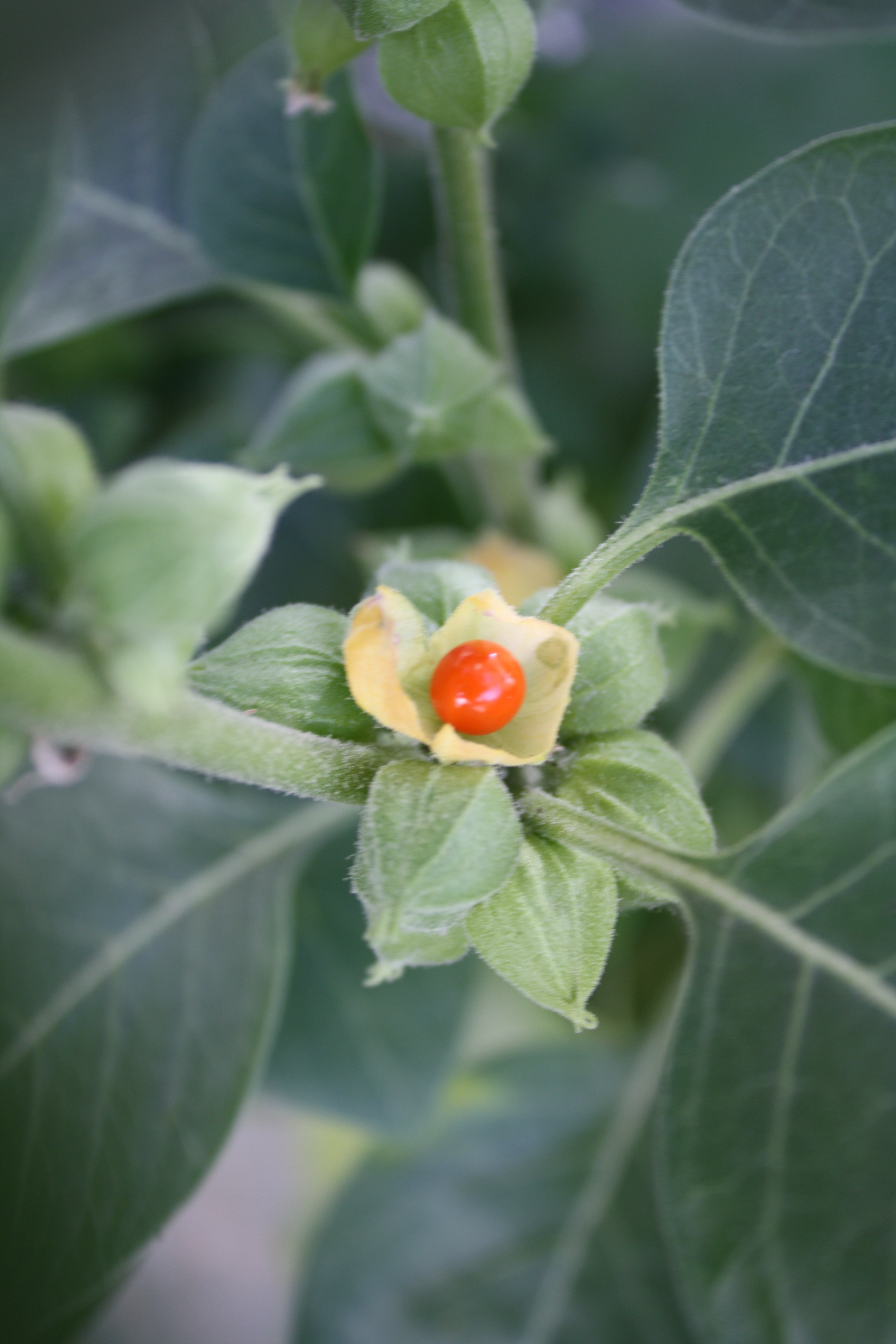 Berry of the Withania somnifera plant.